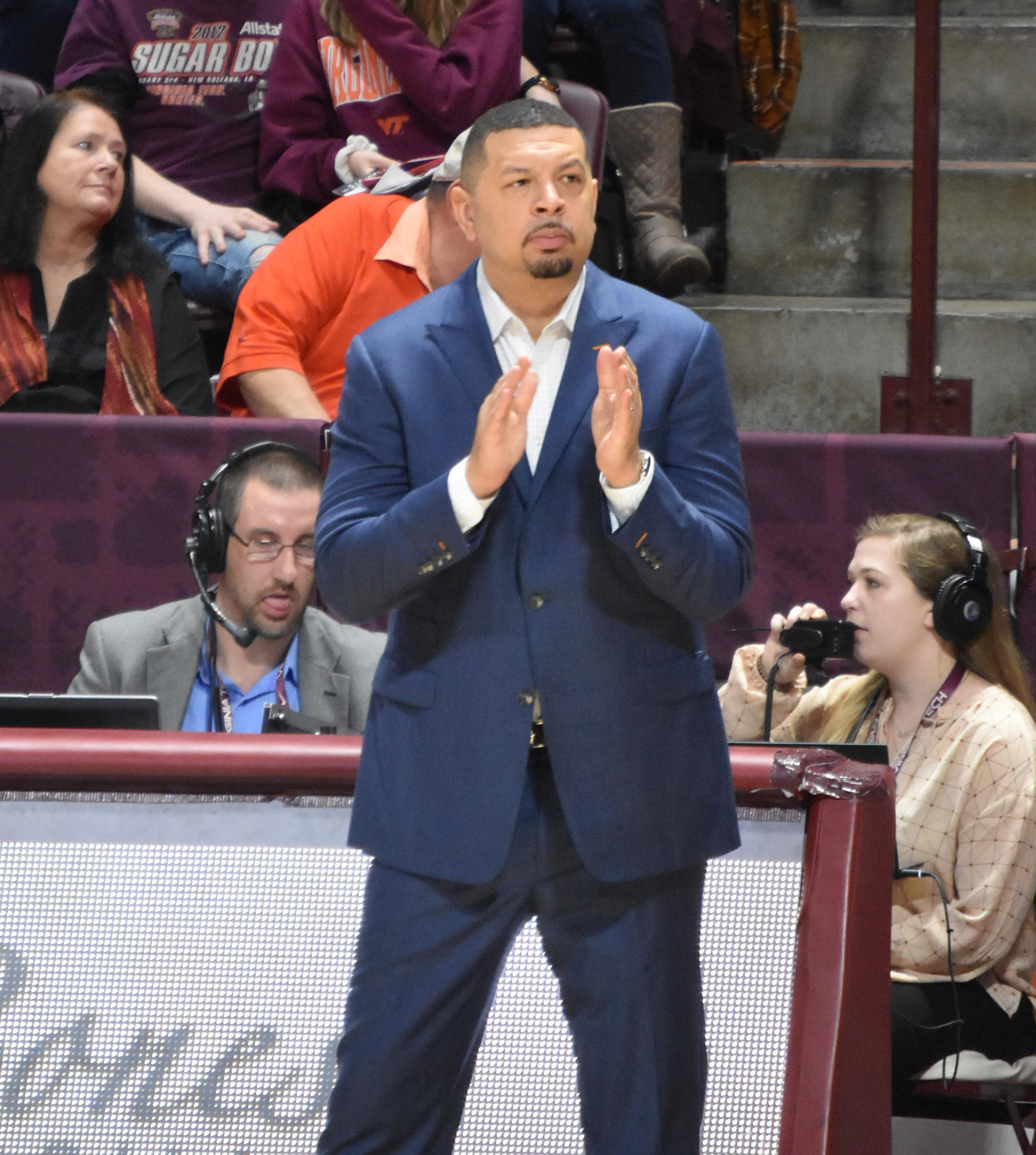 Pitt Head Coach Jeff Capel before the start of the Pitt - Virginia Tech Game at Cassell Coliseum